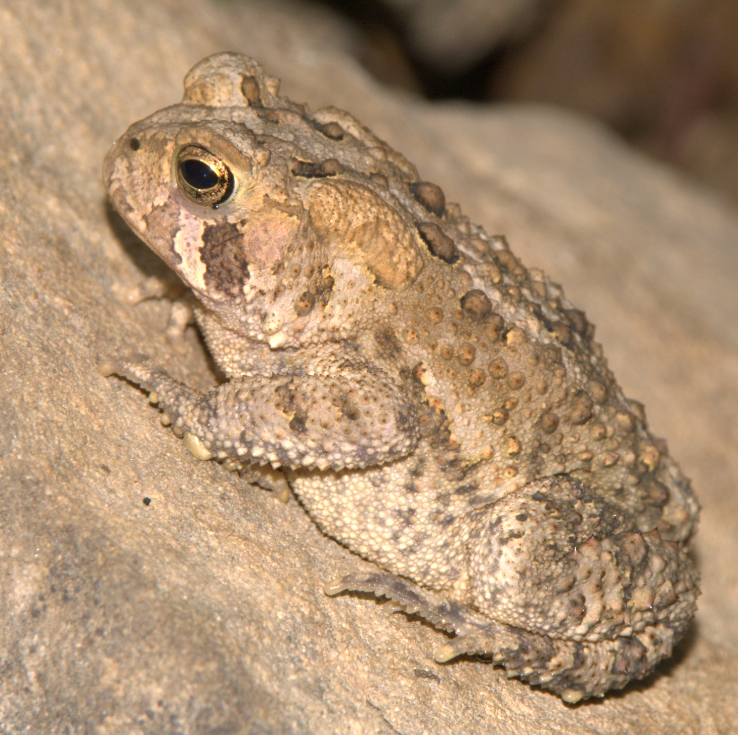 American Toad (Bufo americanus), Deep Creek Lake State Park, Maryland